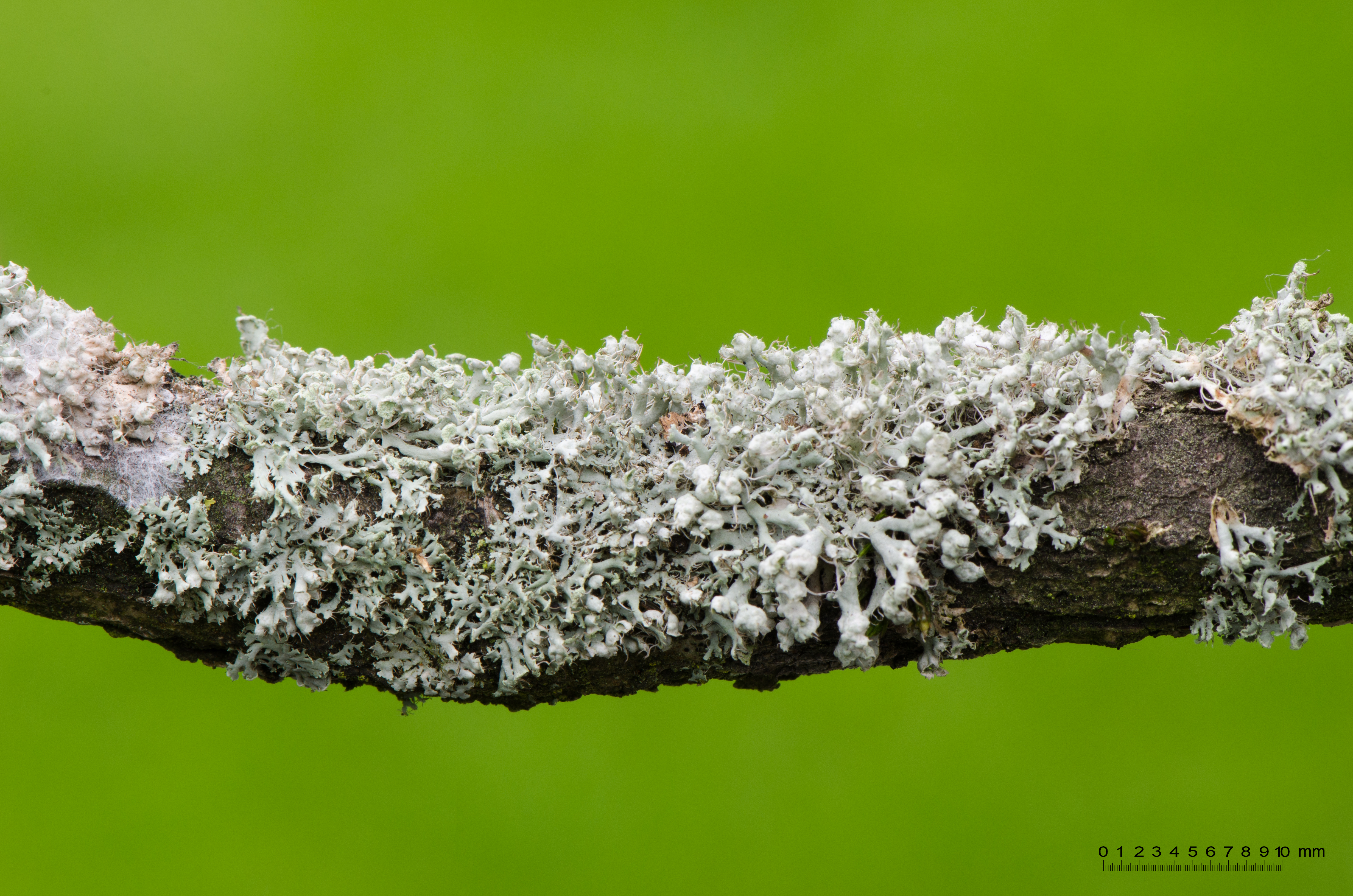 Physcia tenella and Physcia adscendens) on a branch in Hesse, Germany. Lichens are interesting life forms: fungi hold algae captive in a way, that their relationship is in-between a symbiosis and purely parasitic, also described as controlled parasitism. The lichen species was assigned using the book, "Farbatlas Flechten und Moose" by Volkmar Wirth and Ruprecht Düll, Eugen Ullmer GmbH, 2000, ISBN 3-8001-3517-5. Please contact me, if you think that it is a different species.